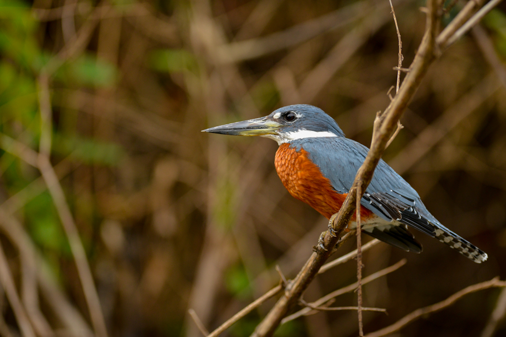 Megaceryle torquata-Ringed Kingfisher